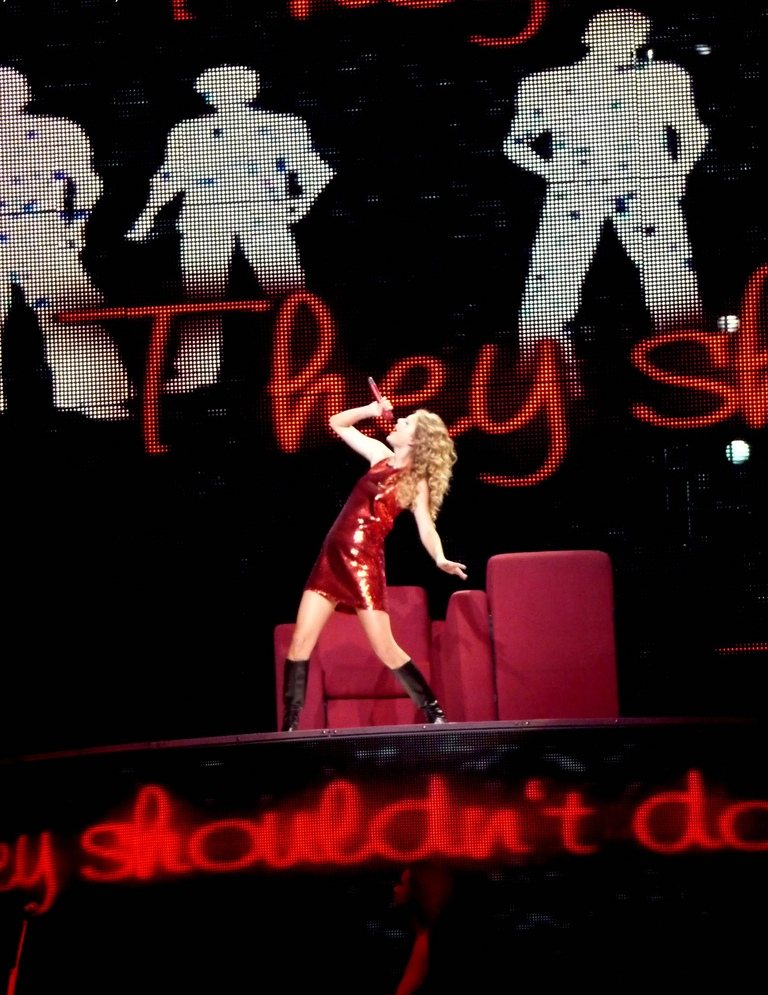 Country pop singer Taylor Swift performing on her Fearless Tour in Los Angeles, California